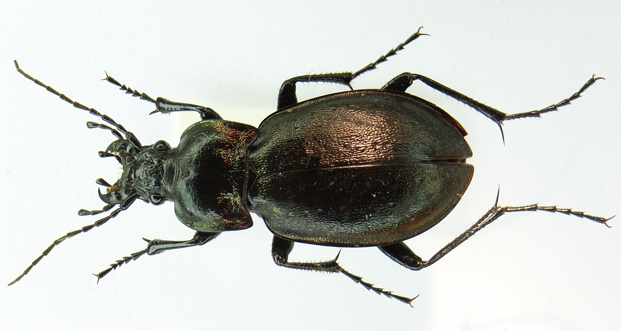 Female of Carabus nemoralis